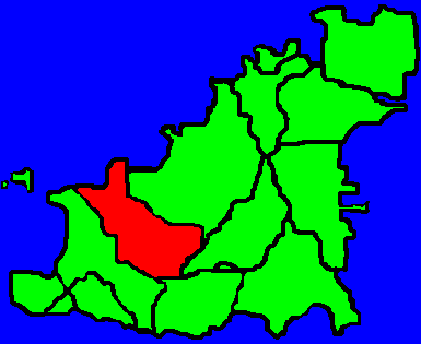 This map shows the position of St Saviours in relation to the rest of Guernsey. I created this myself based on Image:Parishes in Guernsey (The Forest shaded).GIF